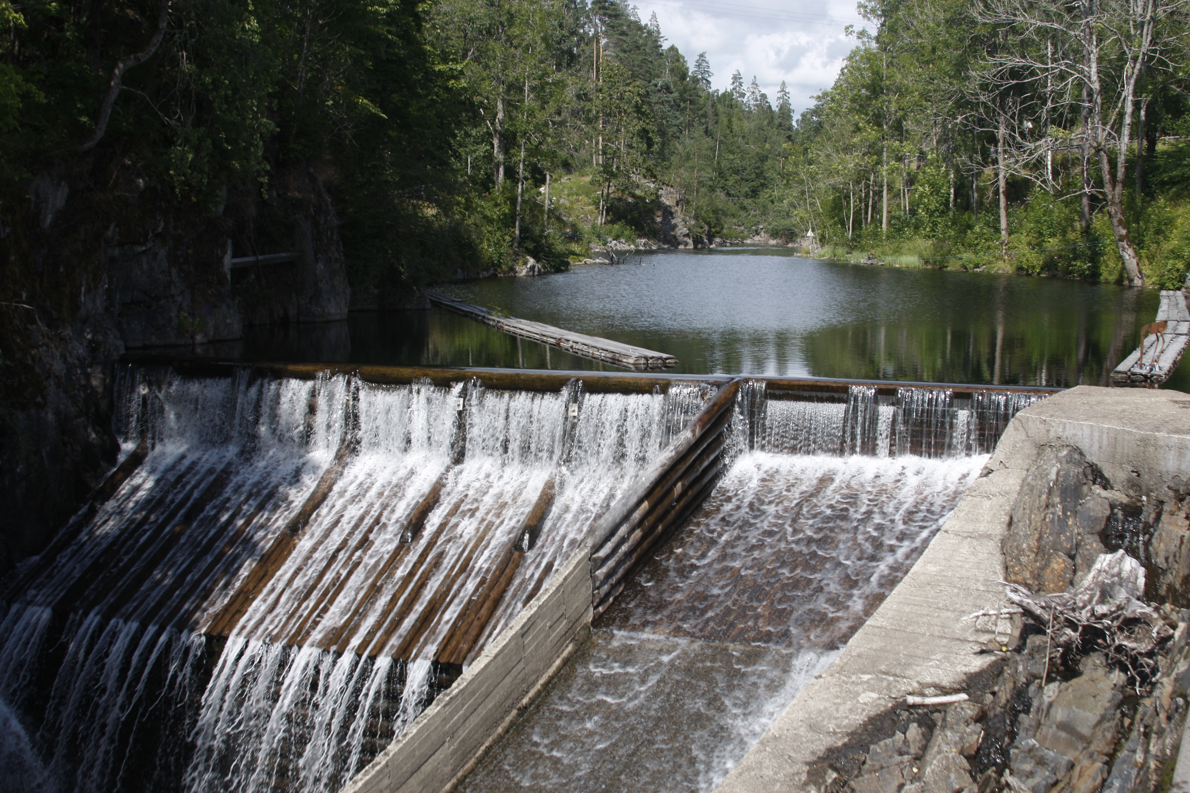 Nes Jernverk, in Tvedestrand municipality, Aust-Agder Norway. 17th century. This dam regulates the local Storelva river.